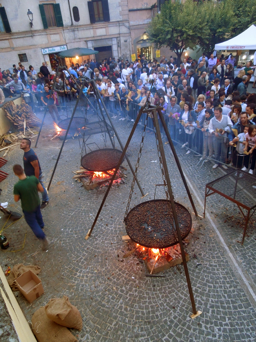 Castanyada: roasted chestnuts inside the pans, Canepina – Italy.